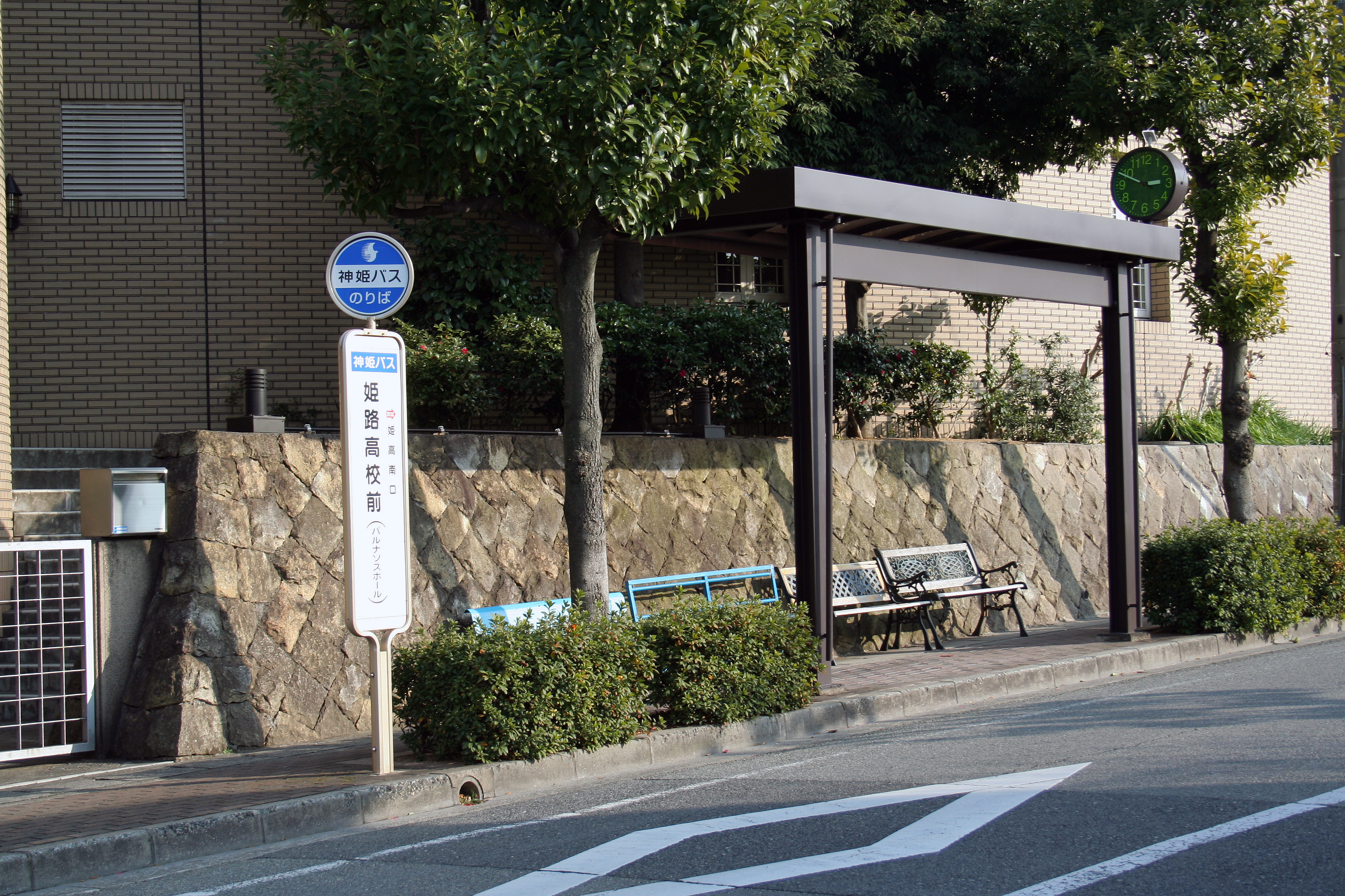 Shinki Bus Himeji-koko-mae (Himeji High School) Bus Stop